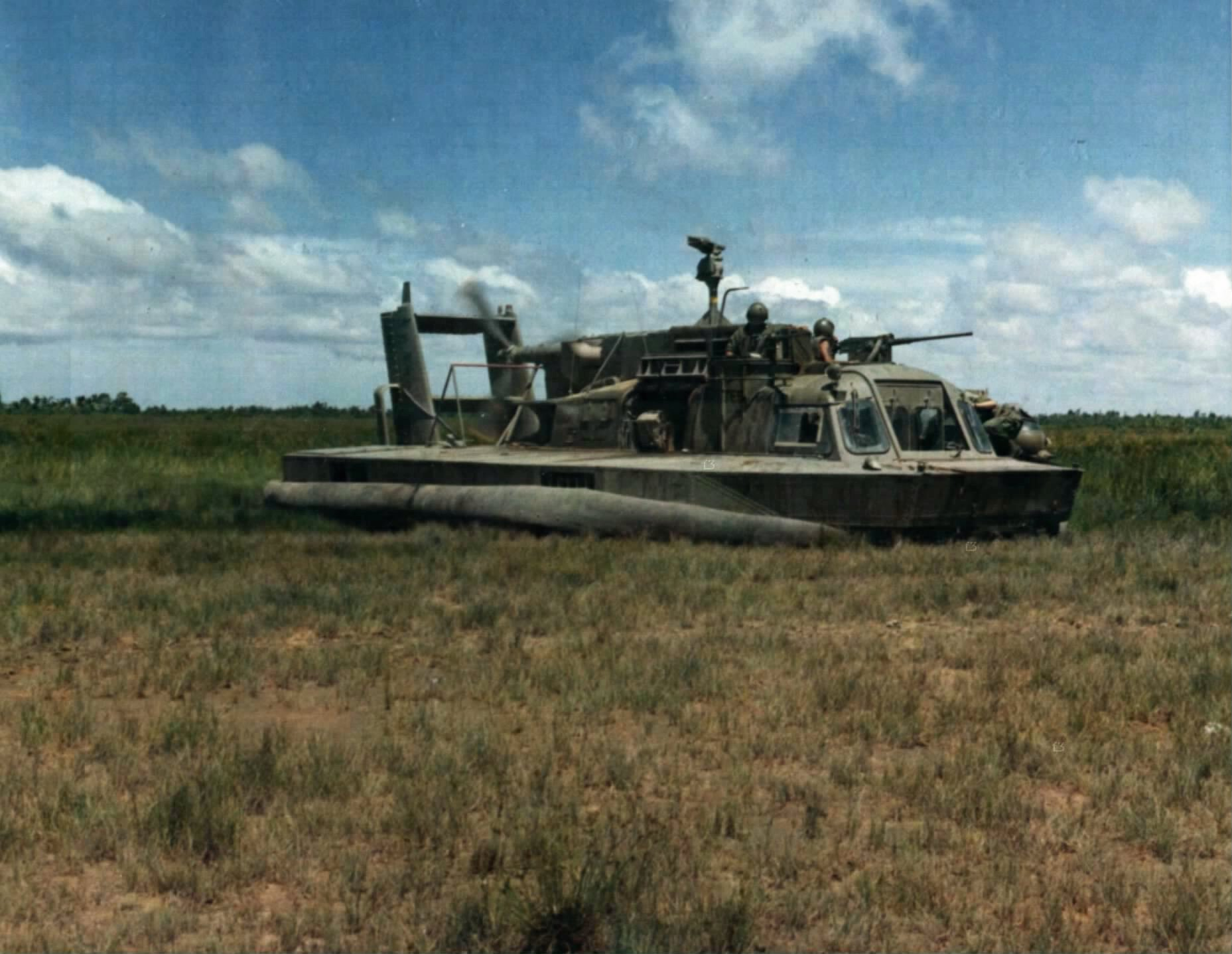 An Assault Air-Cushion Vehicle prepares to take part in Operation Truong Cong Dinh